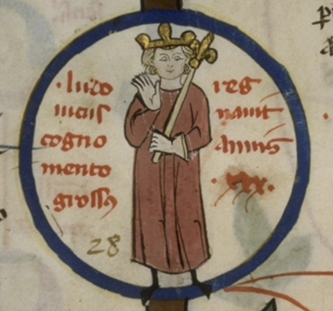 Louis VI of France